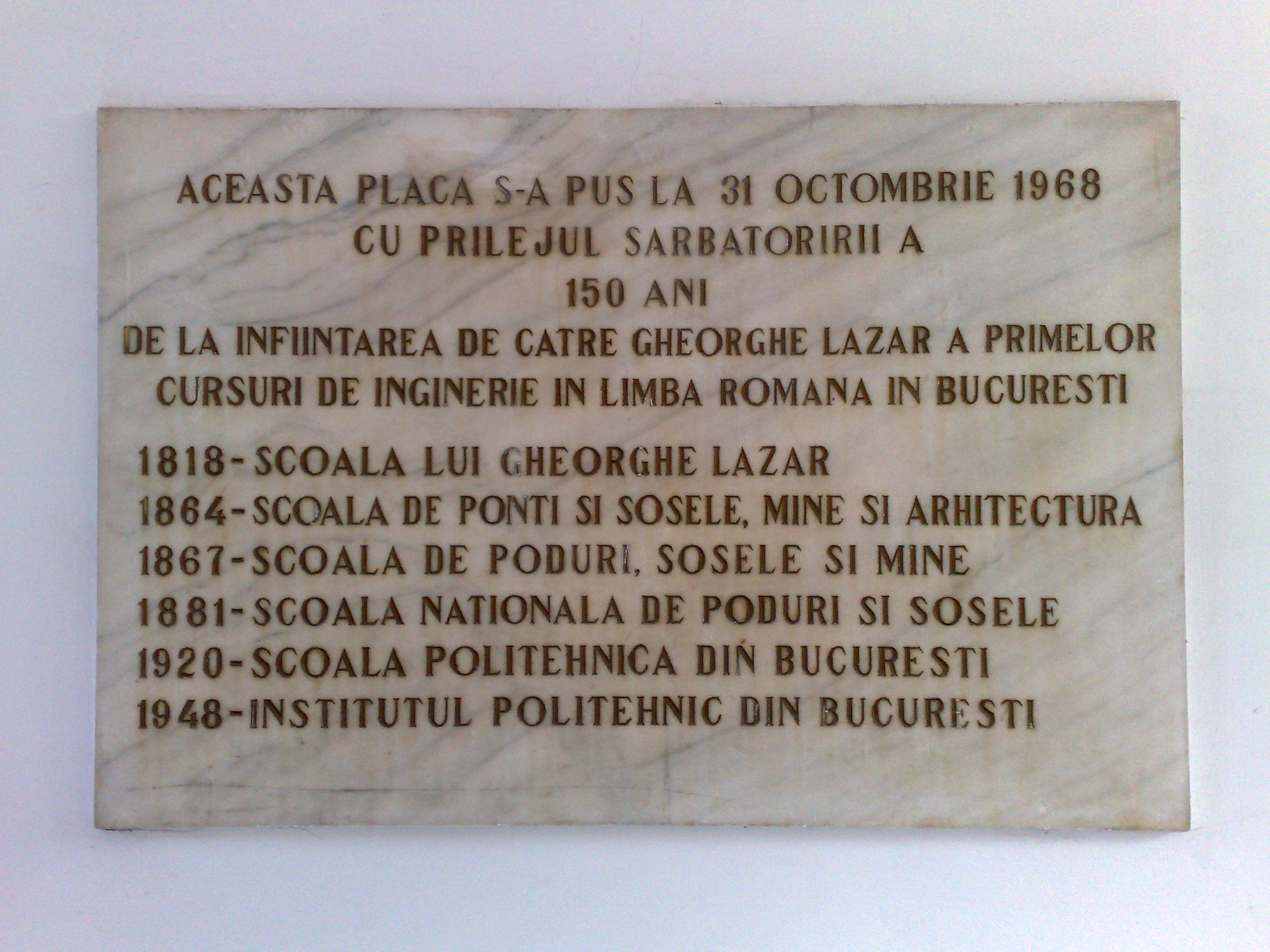 Commemorative plaque for the 150th year since the faculty was founded